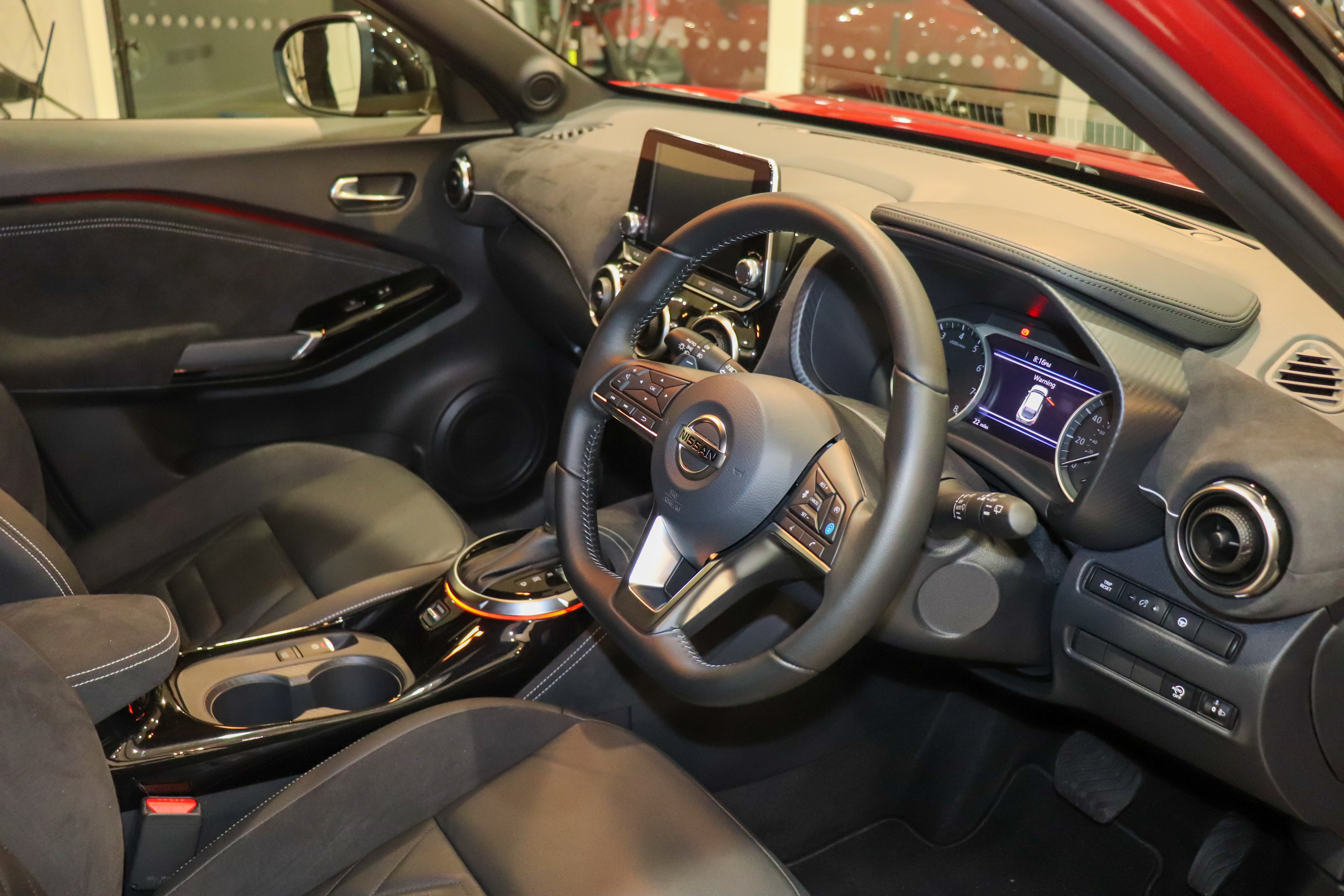 2019 Nissan Juke Tekna+ 1.0 Interior Taken at the VIP Preview at Arbury Nissan Leamington Spa